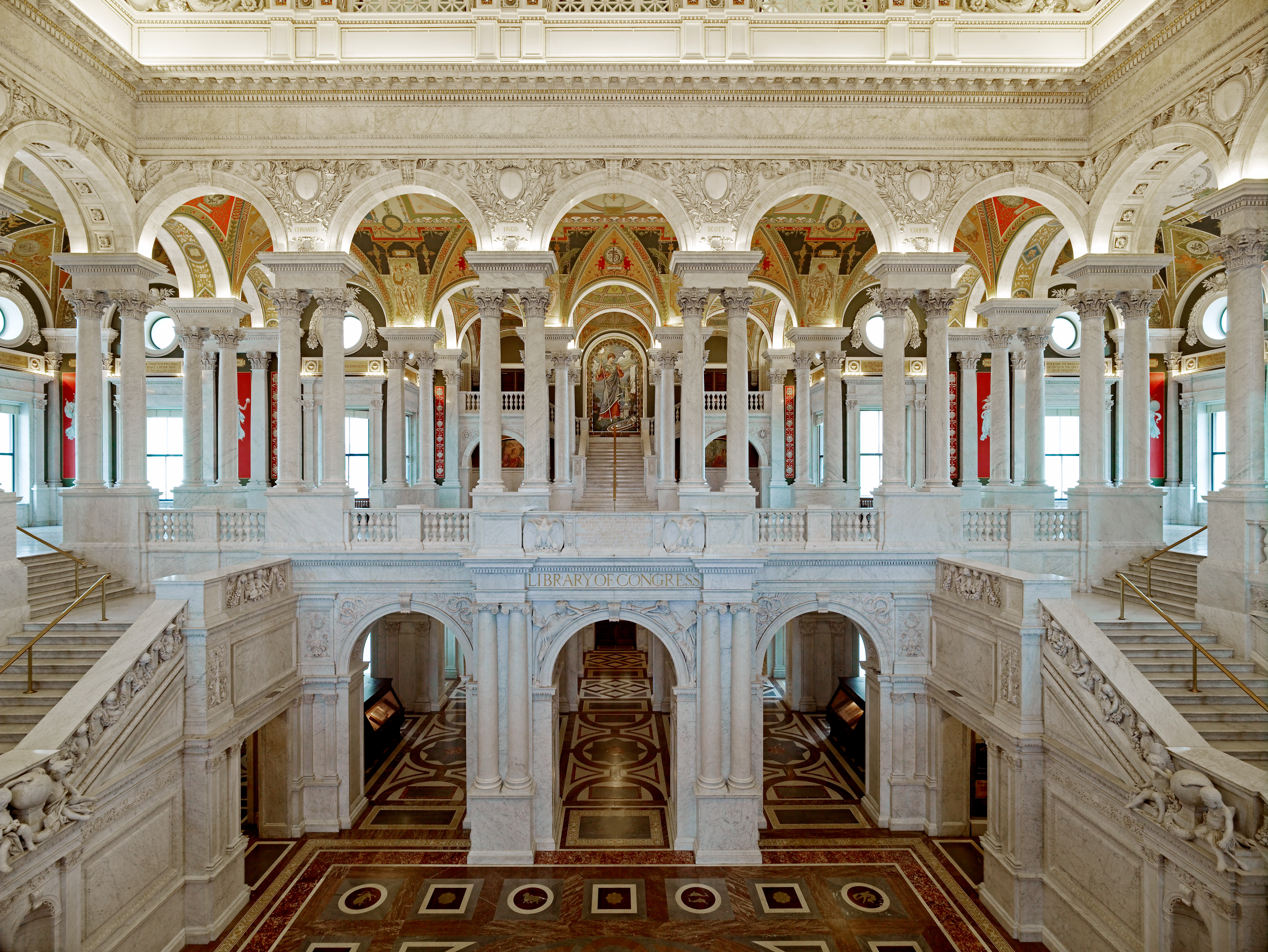 Highsmith, Carol M.,, 1946-, photographer. [Great Hall. View of first and second floors, with Minerva mosaic in background. Library of Congress Thomas Jefferson Building, Washington, D.C.] 2007. 1 photograph : digital, TIFF file, color. Notes: Title devised by Library staff. Forms part of the Library of Congress Series in the Carol M. Highsmith Archive. Subjects: Library of Congress Thomas Jefferson Building (Washington, D.C.)--2000-2010. Format: Digital photographs--Color--2000-2010. Repository: Library of Congress, Prints and Photographs Division, Washington, D.C. 20540 USA, More information about the Highsmith Collection is available at Higher resolution image is available (Persistent URL): This image is available from the United States Library of Congress's Prints and Photographs division under the digital ID highsm.03185.This tag does not indicate the copyright status of the attached work. A normal copyright tag is still required. See Commons:Licensing for more information. Call Number: LOT 13860 [item]